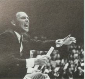 Jerry Norman of UCLA during 1967–68 season